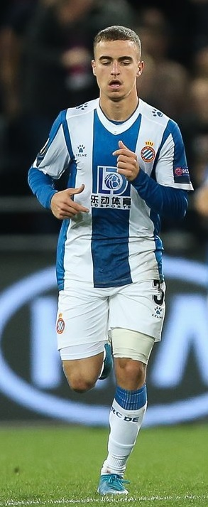 Adrià Pedrosa with RCD Espanyol in an Europa League game against PFC CSKA Moscow.